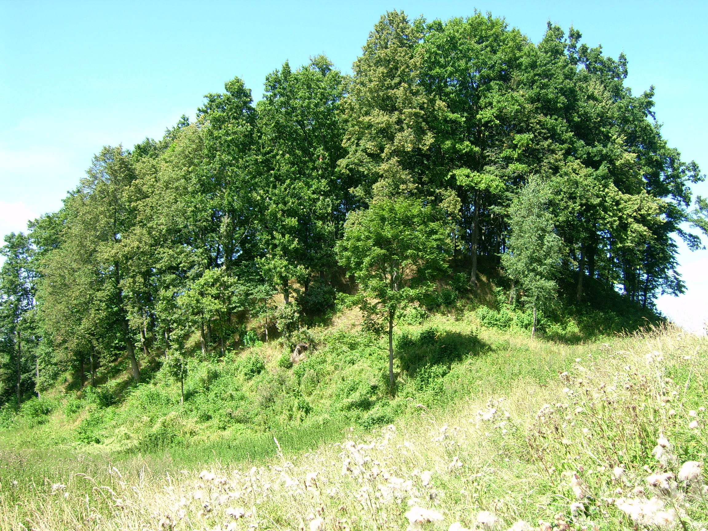 Karsuva mound in Taurage district